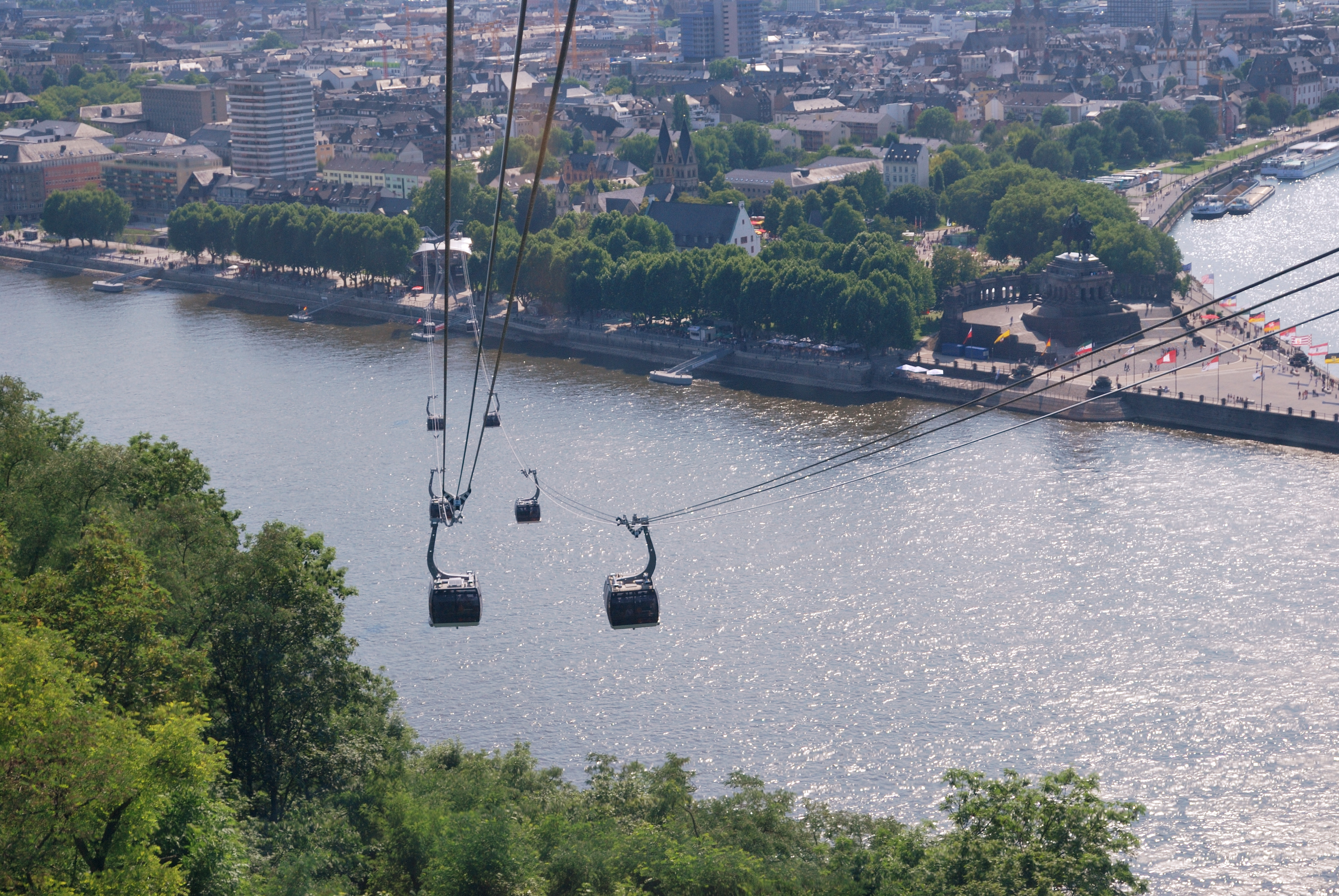 The National Garden Show 2011 in Koblenz - Koblenz Cable Car